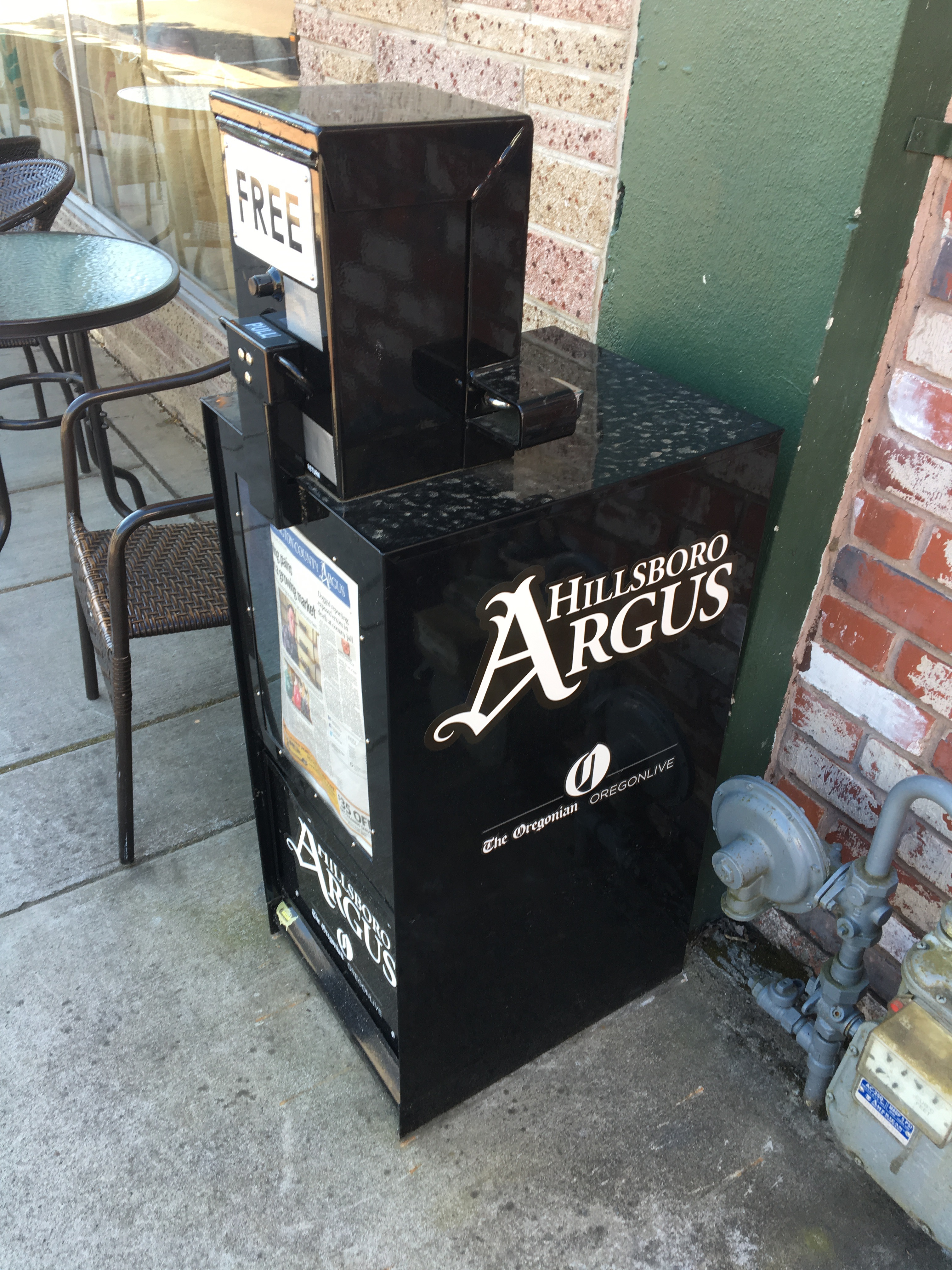 Hillsboro Argus newspaper box in Forest Grove, OR. By the time the photo was taken, the box had begun holding the Washington County Argus, which had replaced the Hillsboro Argus, Beaverton Leader and Forest Grove Leader in January 2016, and which was distributed free by its publisher. The Washington County Argus was discontinued in March 2017.